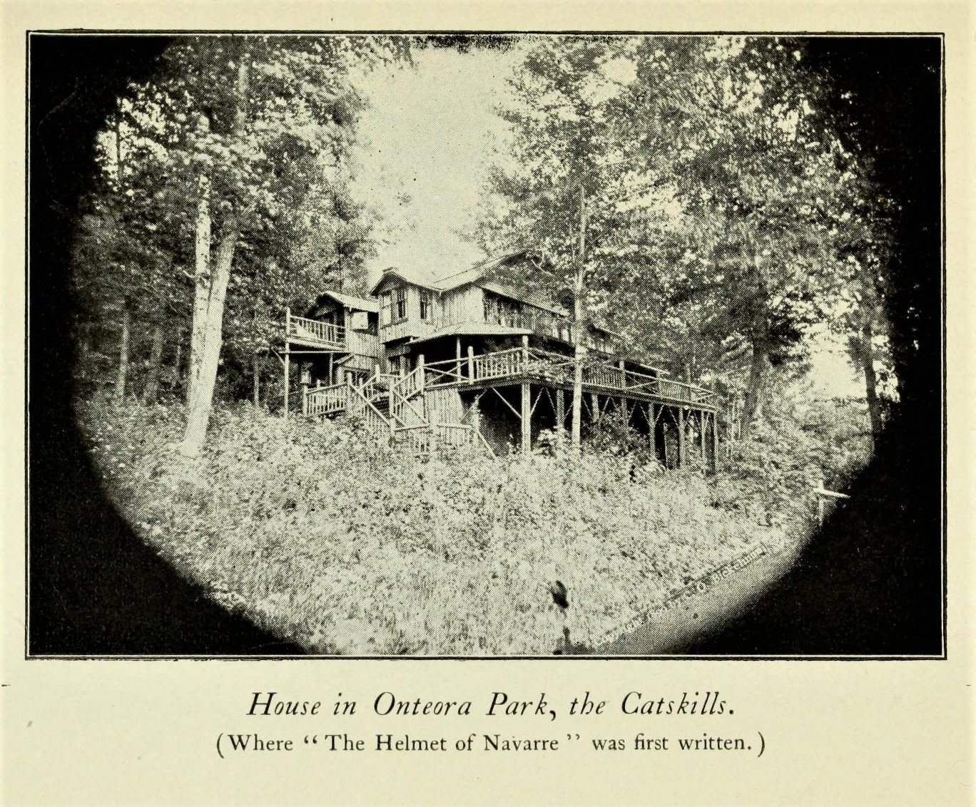 Photograph of the home American writer Bertha Hunkle (1831-1919) in Onteora Park, the Catskills, New York. From Women Authors of Our Day in Their Homes by Francis Whiting Halsey. New York: James Pott and Company, 1903: p. 31. The caption identifies the home as where she wrote The Helmet of Navarre.